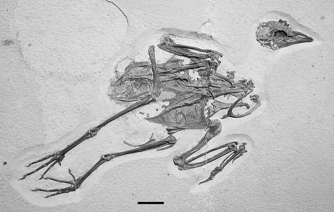 Gallinuloides wyomingensis, newly identified specimen from the Green River Formation (WDC CGR−012). Scale bar 20 mm.